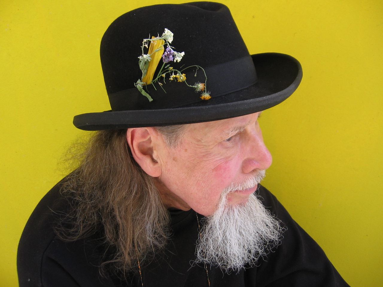 This photo was taken by Pamela Seymour Smith and uploaded by her on January 22, 2007.